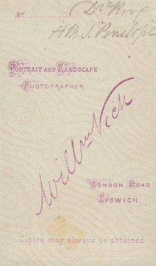 Business card printed with purple ink